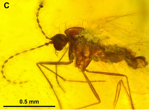 Sycoracinae: (C) Parasycorax simplex ♂, Holotype specimen.